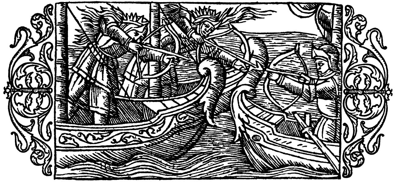 On Viking Expeditions of Highborn Maids. Two female warriors, of royal family according to the crowns on their heads, are participating a sea battle. The ship to the right has a steering oar as common on viking ships. Historia de gentibus septentrionalibus. Olaus Magnus' History from 1555.